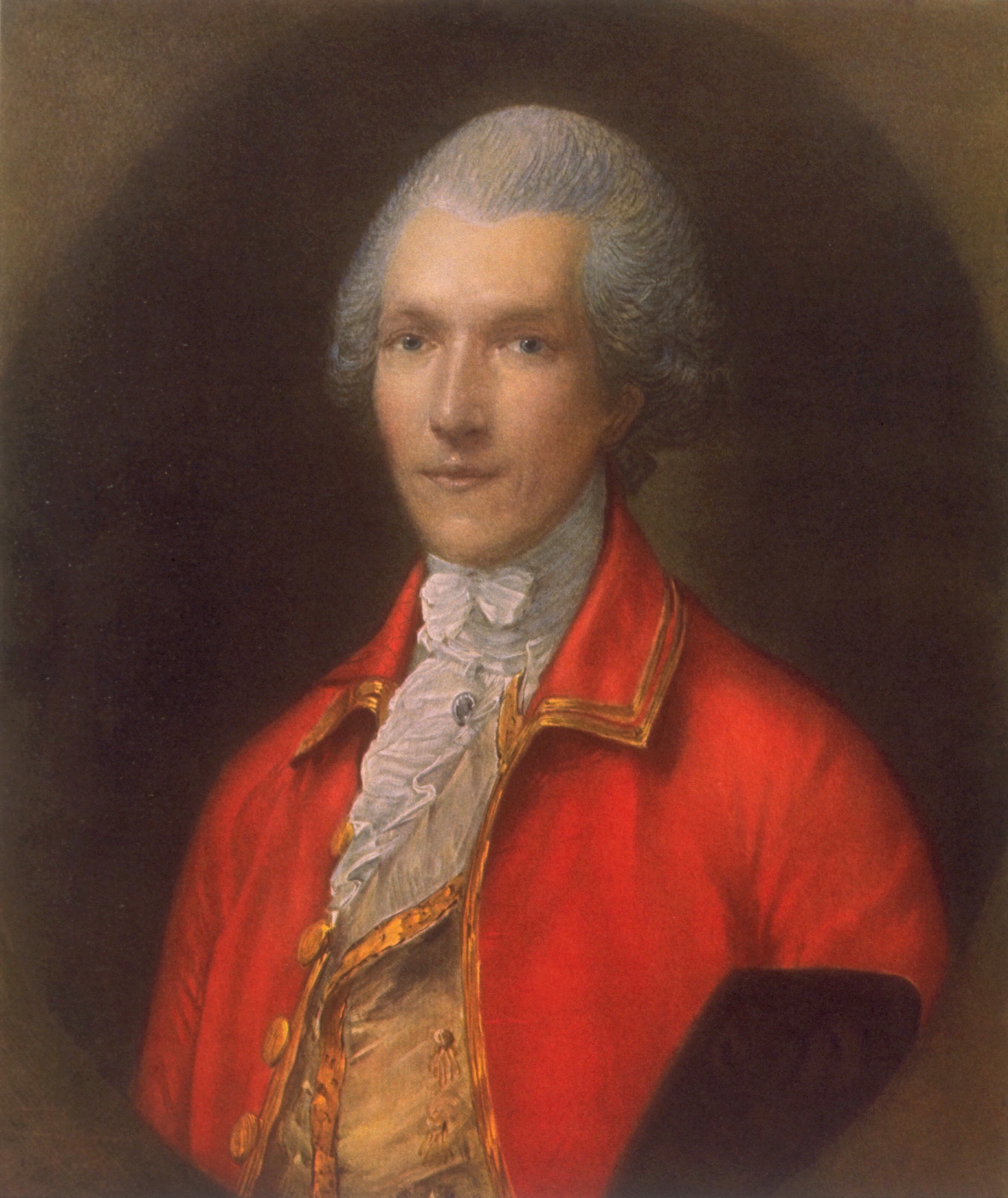 Portrait of Count Rumford (born Benjamin Thompson, 1753–1814) who was an American born soldier, statesman, scientist, inventor and social reformer.